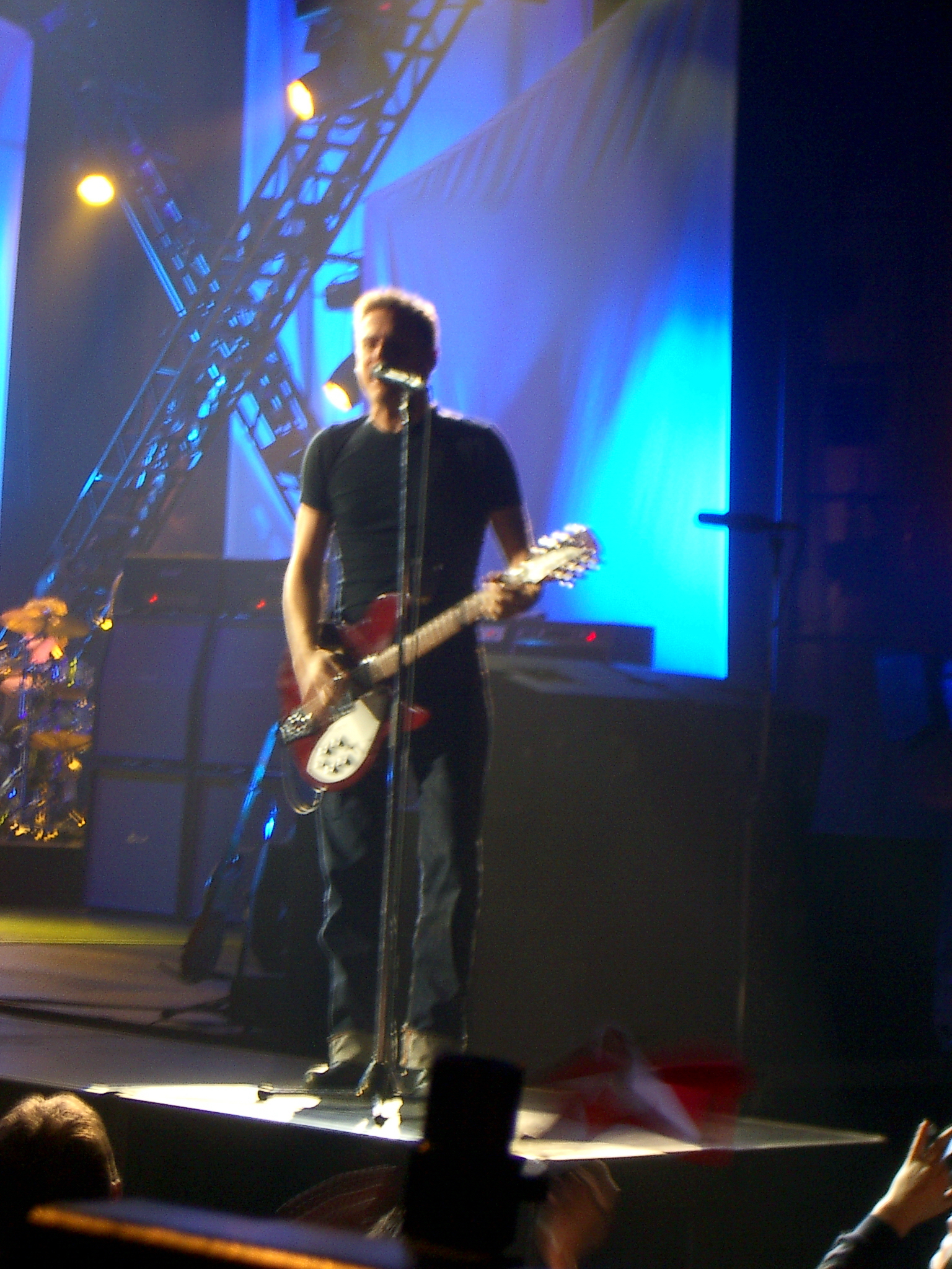 Bryan Adams live in Victoria, (British Columbia, Canada) in January 2006